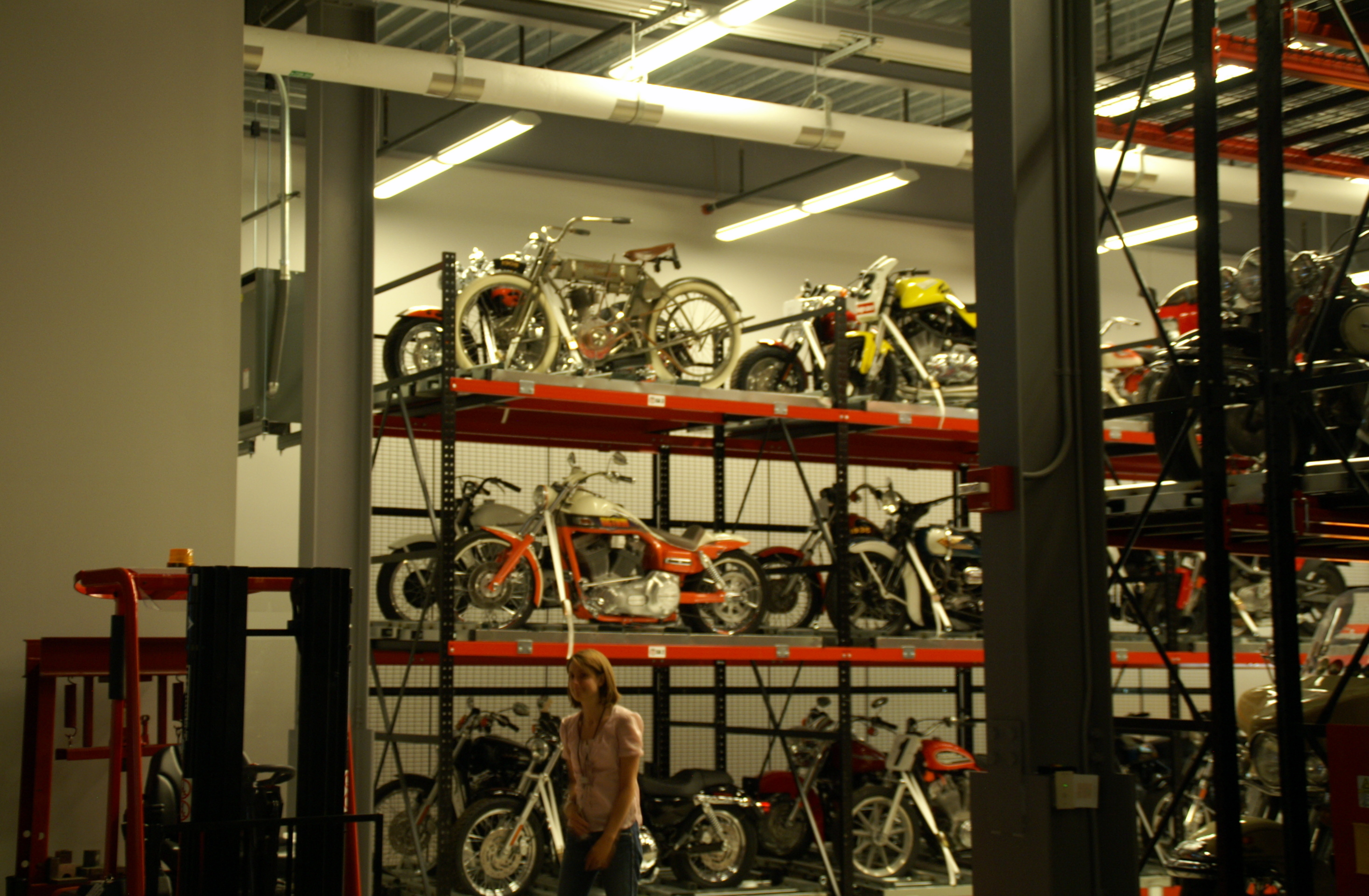 Harley Davidson Museum, archives section. Photo by author. Somewhat blurry due to low lighting; please replace with a better photo when available.